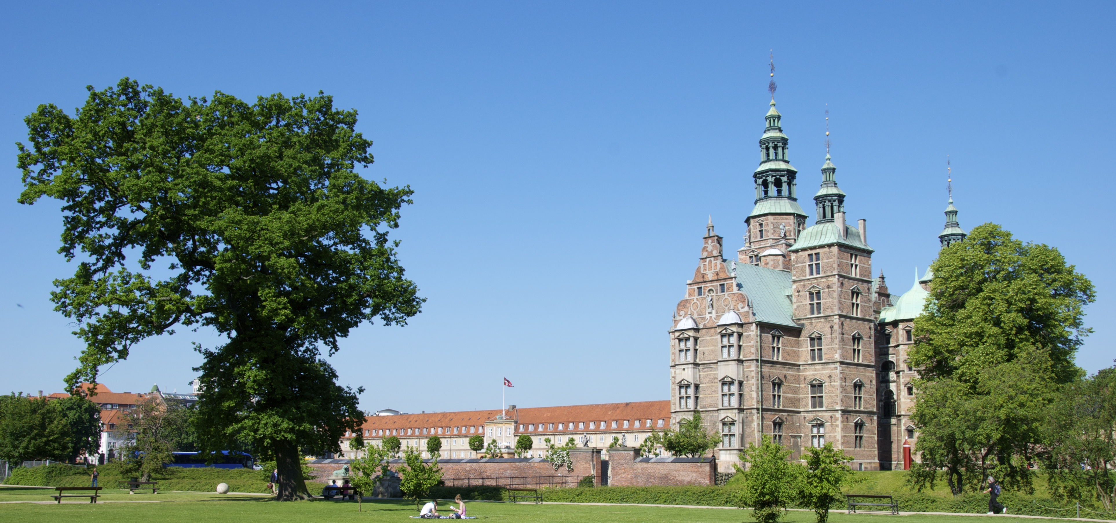 Rosenborg Castle with the Royal Life Guard barracks in the background in Copenhagen, Denmark